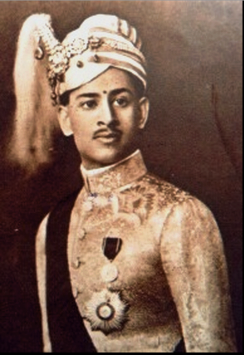 This is the photograph of the last Travancore King, Maharajah Sree Chithira Thirunal Balarama Varma, after his investiture ceremony in 1931.